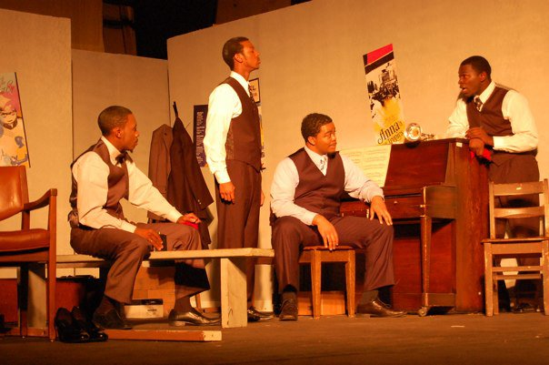 Ma' Rainey's Black Bottom 2009